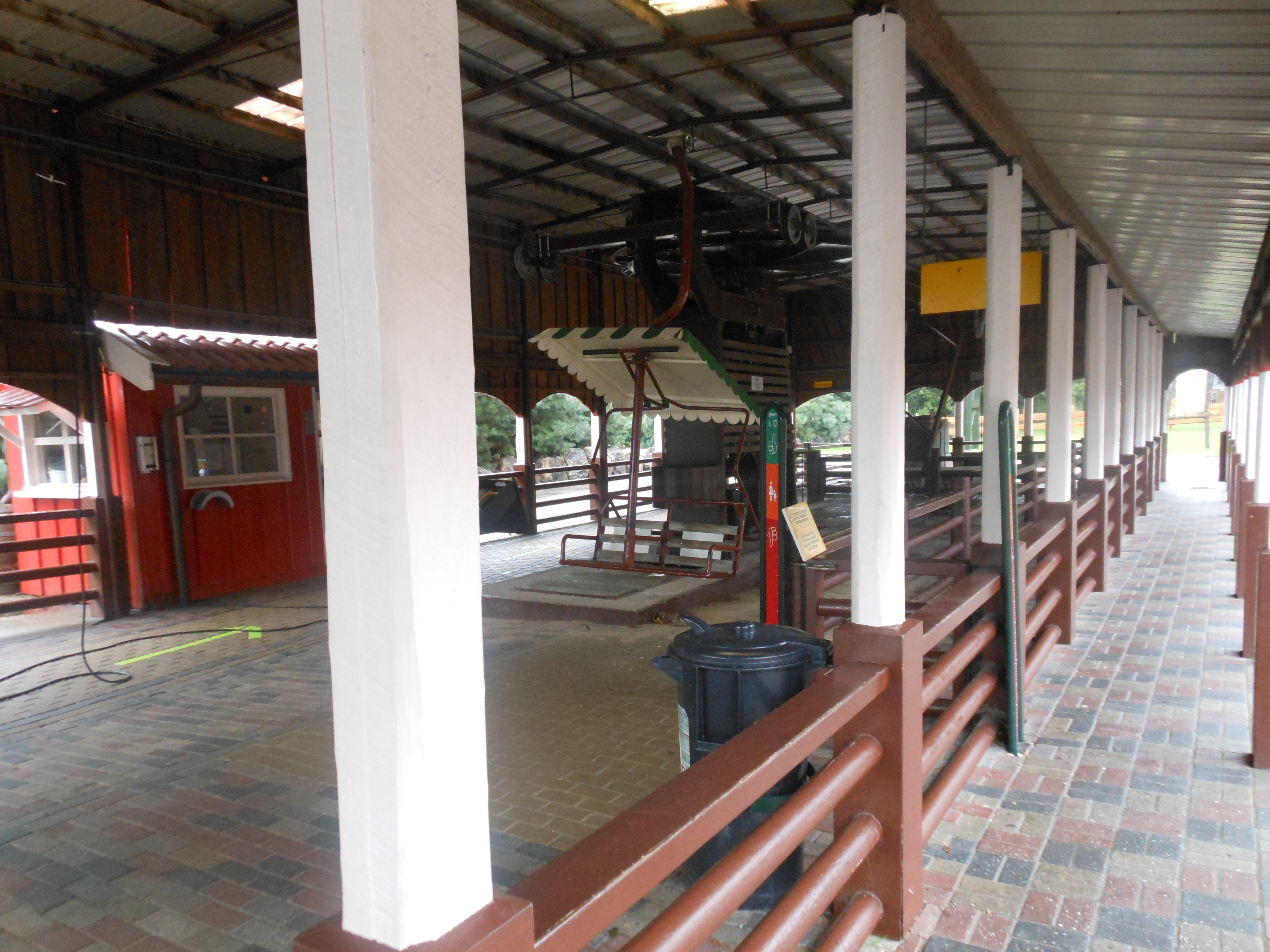 The station of the Cable Car at Attractiepark Slagharen at the back of the park, where the engine is located.